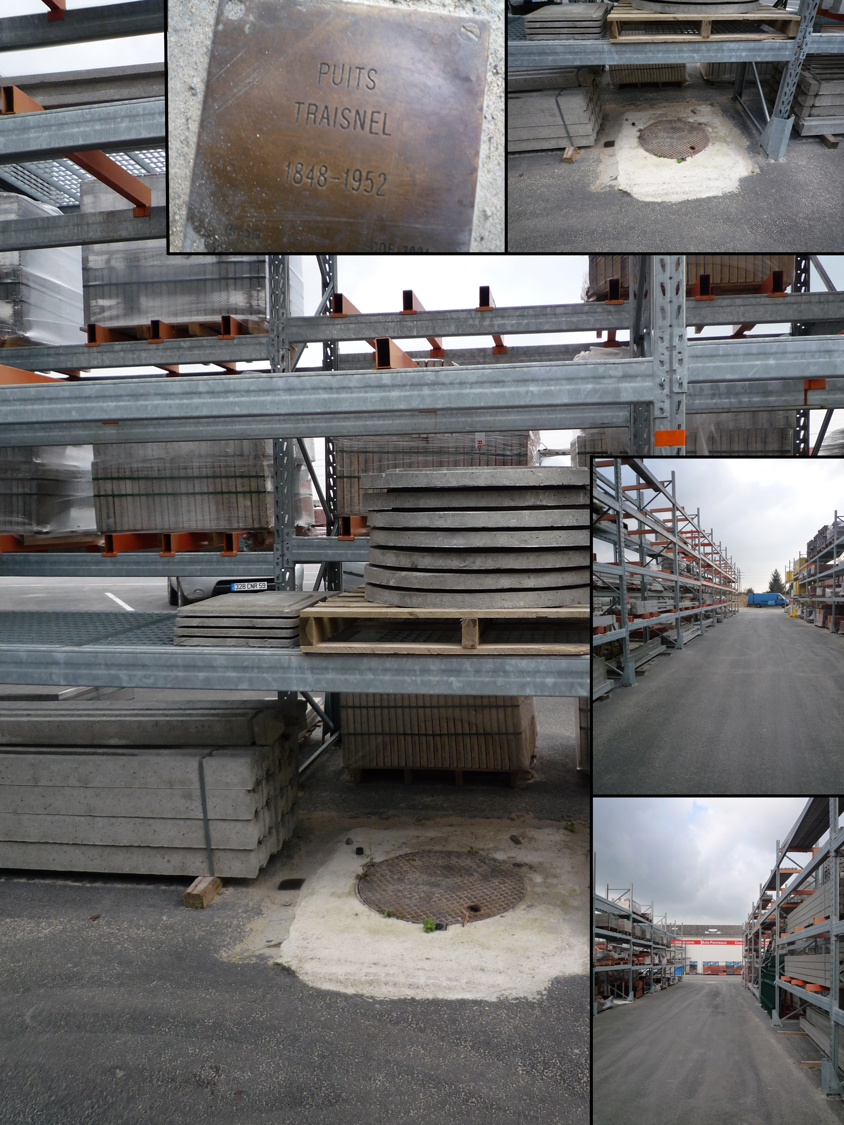 Pit of the Compagnie des mines d'Aniche, France.